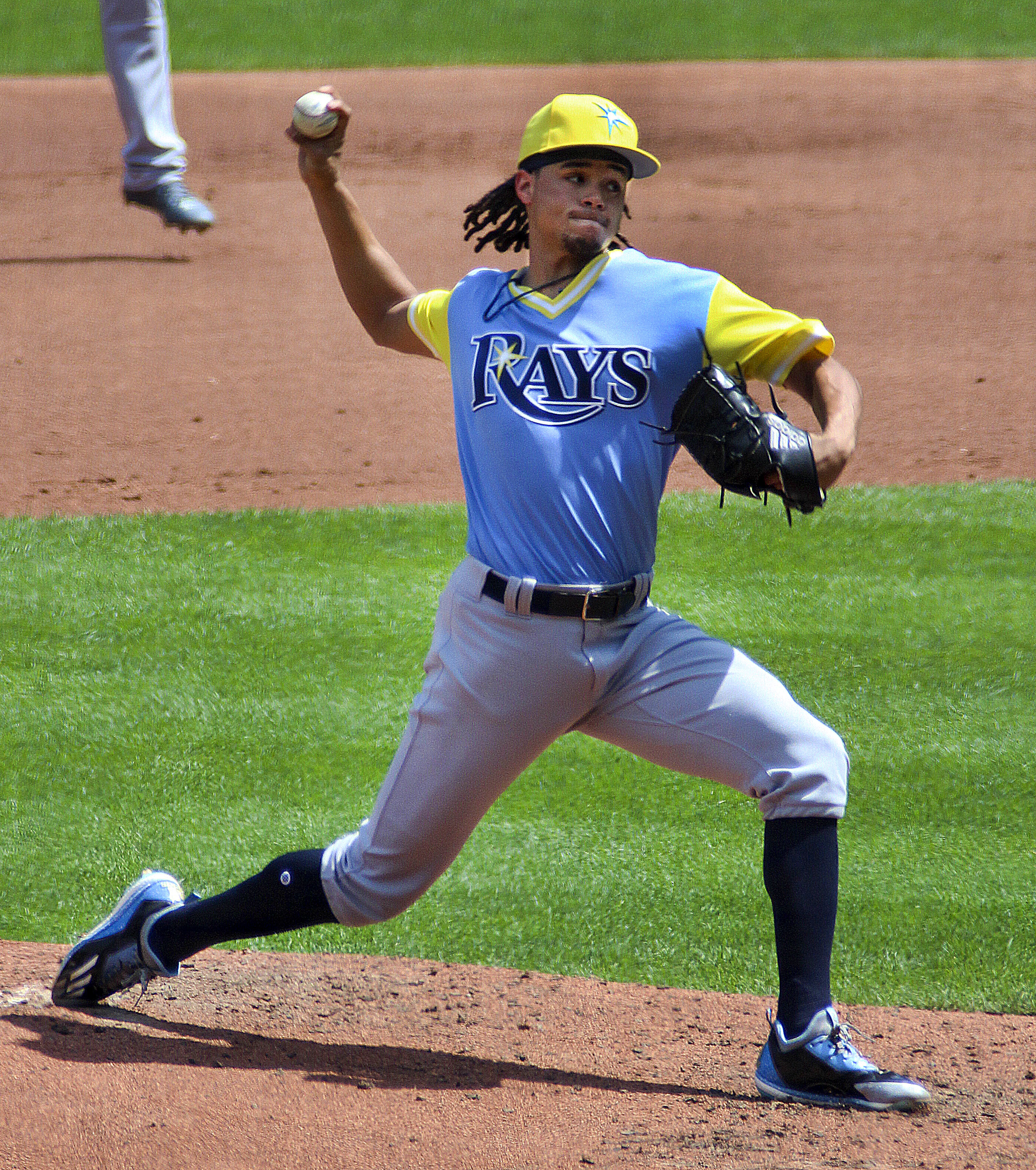 Chris Archer of the Tampa Bay Rays, 2017. St.Louis